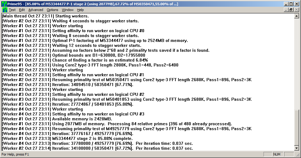 Prime95 v26.3 on startup (Windows XP design)